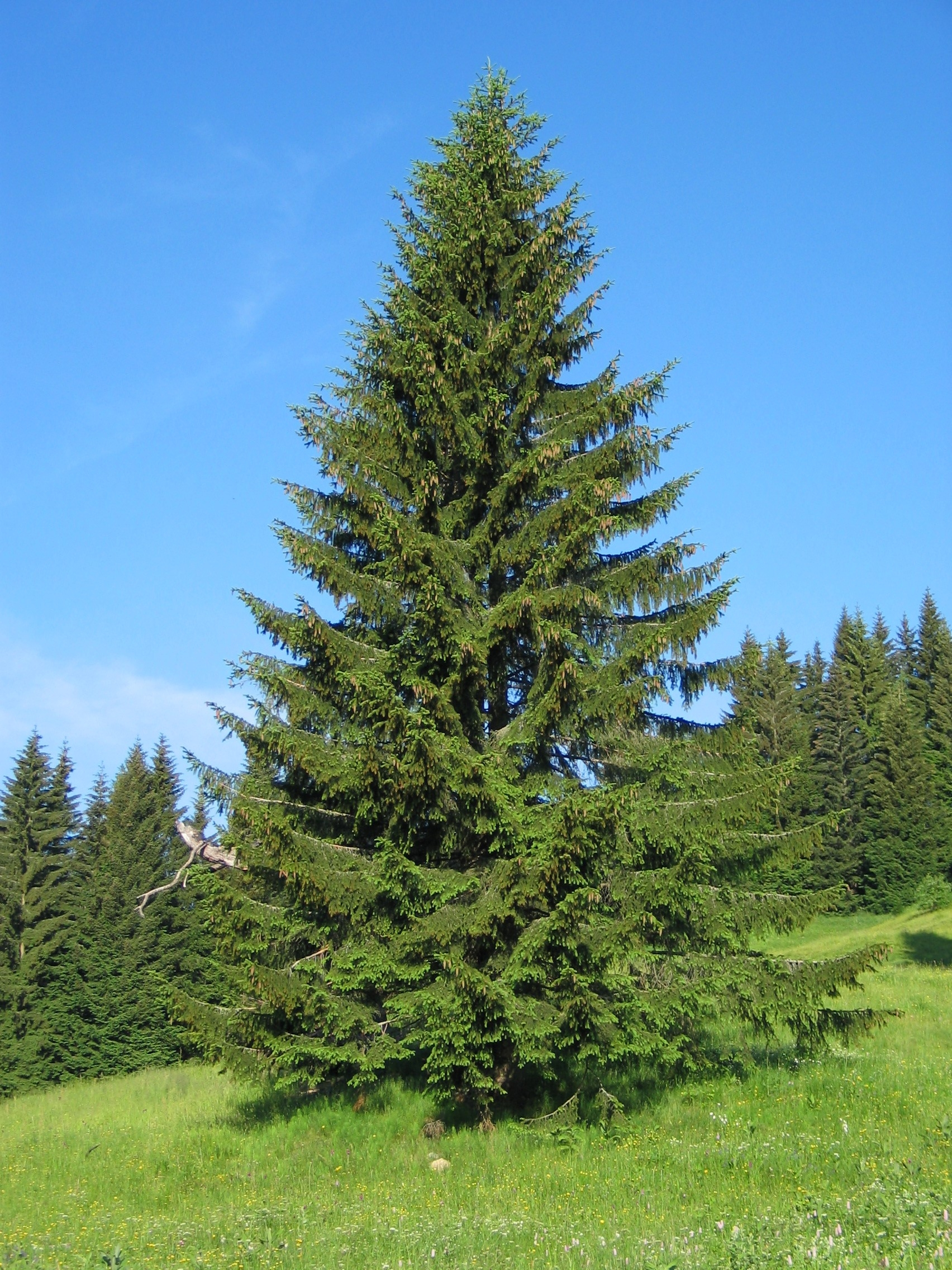 A young tree of Picea abies growing in southern Germany